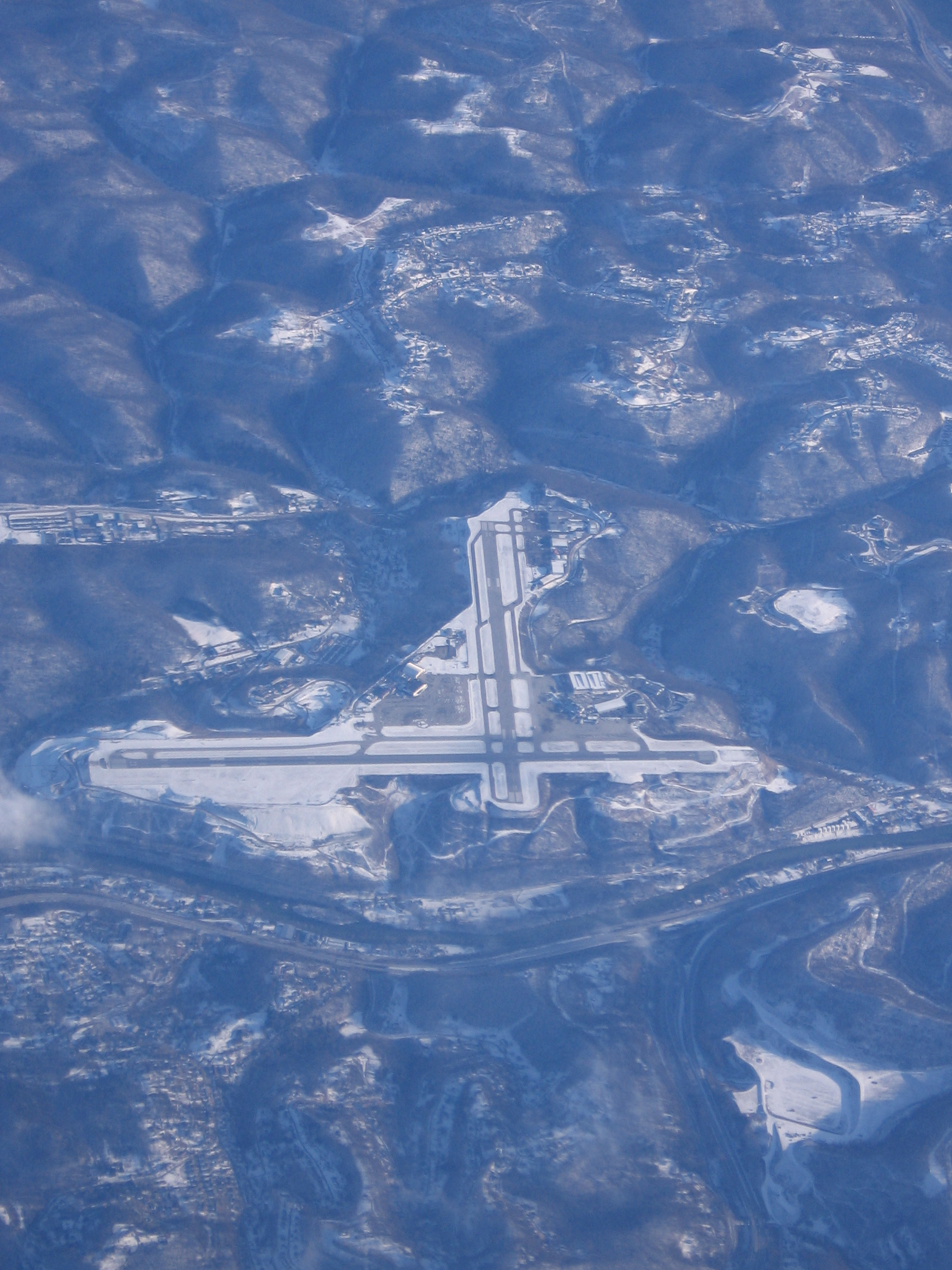 Yeager Airport (CRW) in Charleston, West Virginia from cruise flight levels.